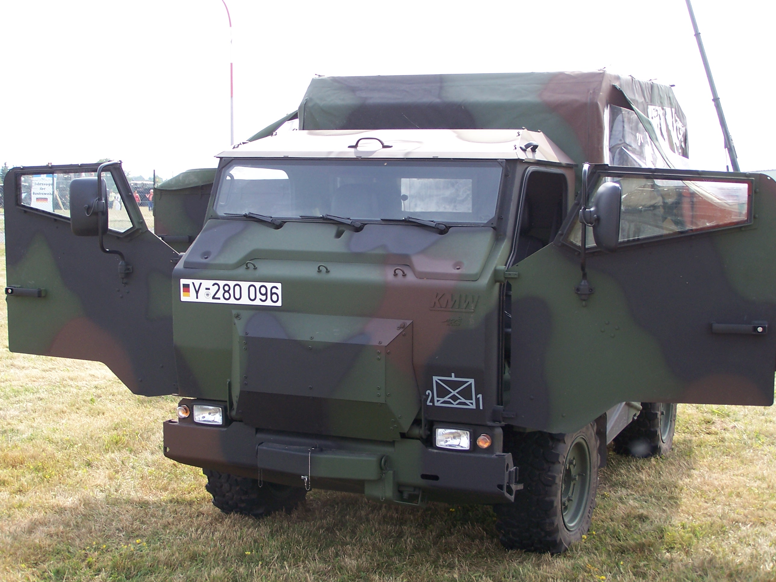 A light, reinforced, airportable Mungo ESK personal carrier for the German Army special forces on static display.